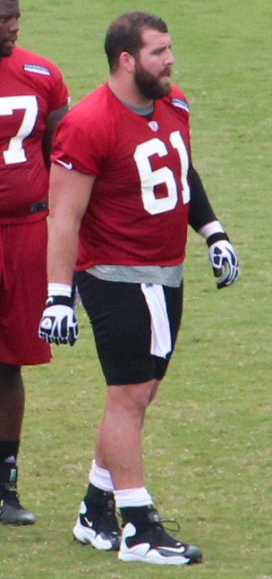 Joe Hawley at Falcons camp, 2013